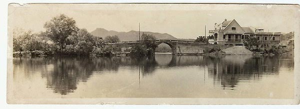 Postcard of West Lake, Hangzhou